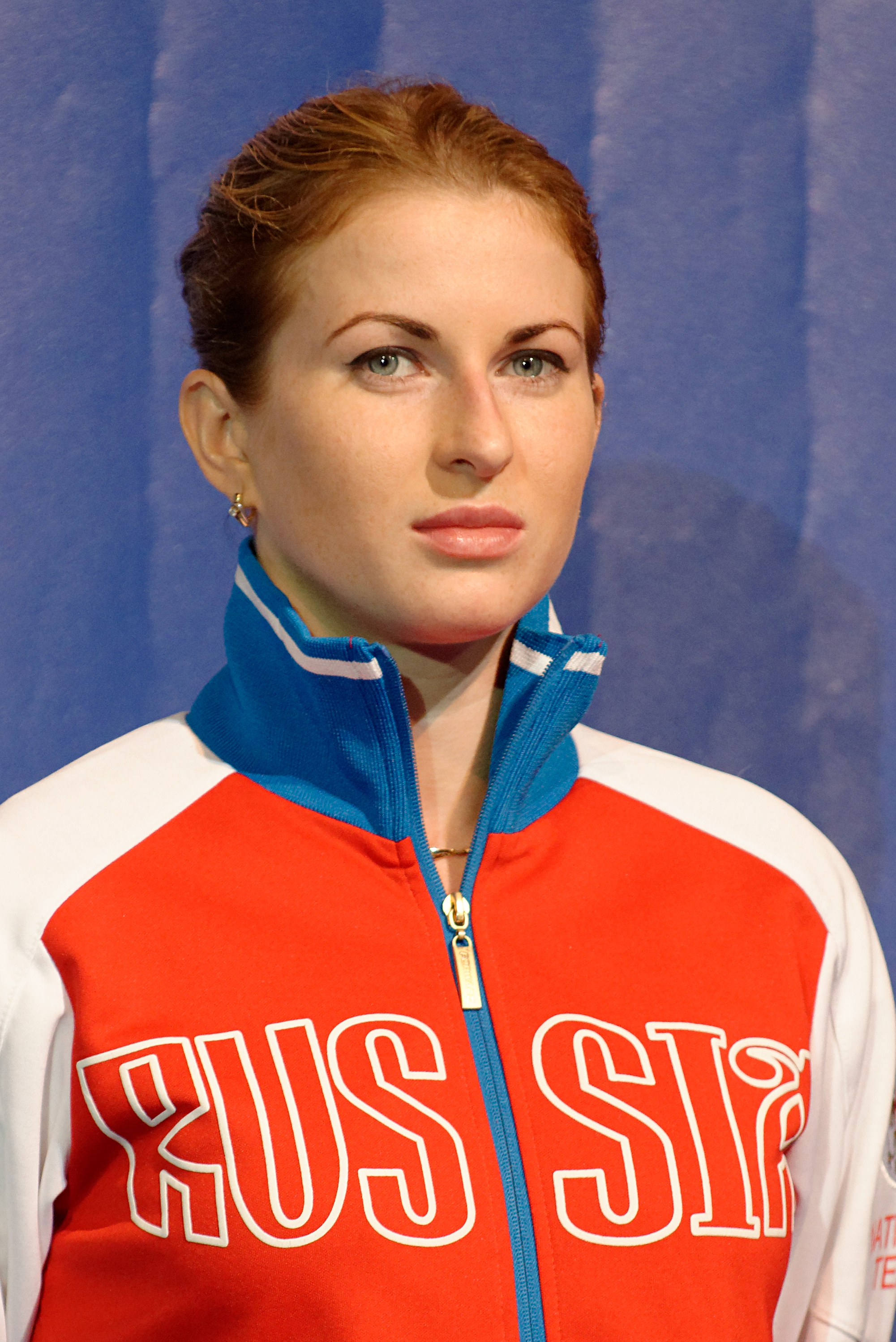 Russia's Inna Deriglazova stands on the women's foil podium of the 2013 World Fencing Championships 2013 at Syma Hall in Budapest, 10 August 2013.